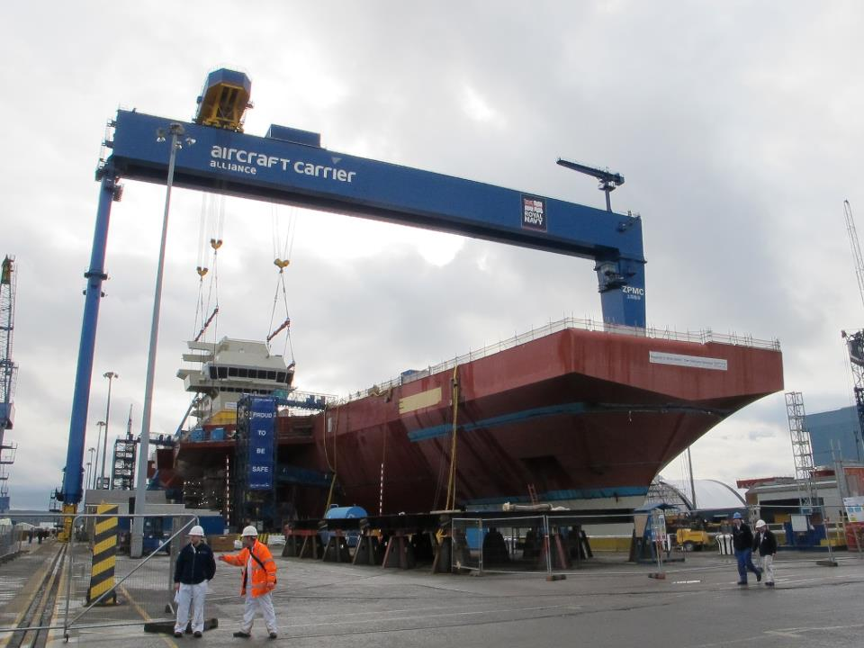 the forward island of the queen elizabeth class aircraft carrier being attached to the main body of the carrier